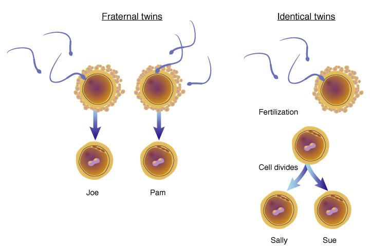 Identical twins are also known as monozygotic twins. They result from the fertilization of a single egg that splits in two. Identical twins share all of their genes and are always of the same sex. In contrast, fraternal, or dizygotic, twins result from the fertilization of two separate eggs during the same pregnancy. They share half of their genes, just like any other siblings. Fraternal twins can be of the same or different sexes.